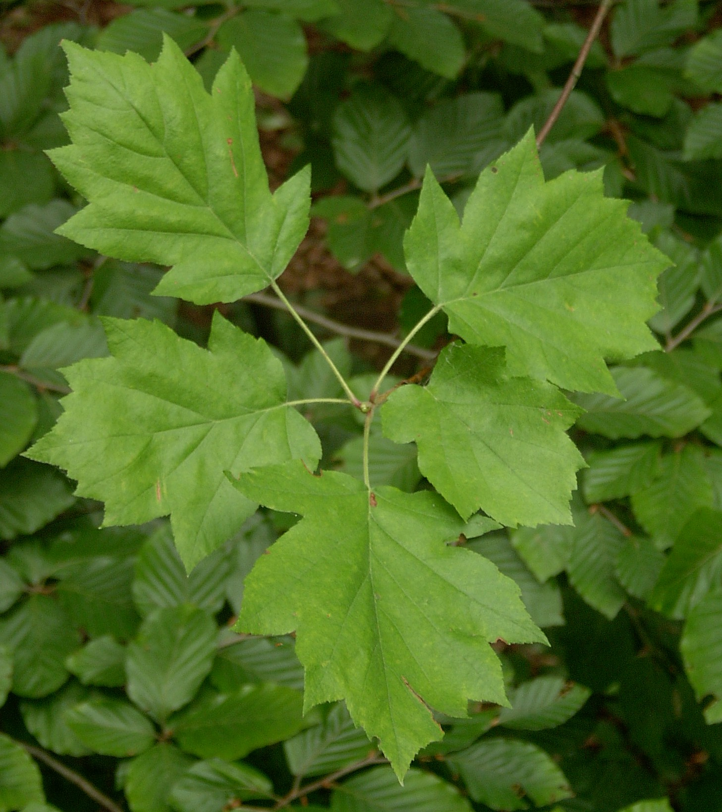 Leaves of Sorbus torminalis. Beech Forest (Puszcza Bukowa) near Szczecin, NW Poland.